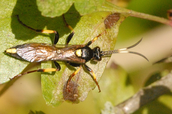 Ichneumon stramentor from Commanster, Belgian High Ardennes .